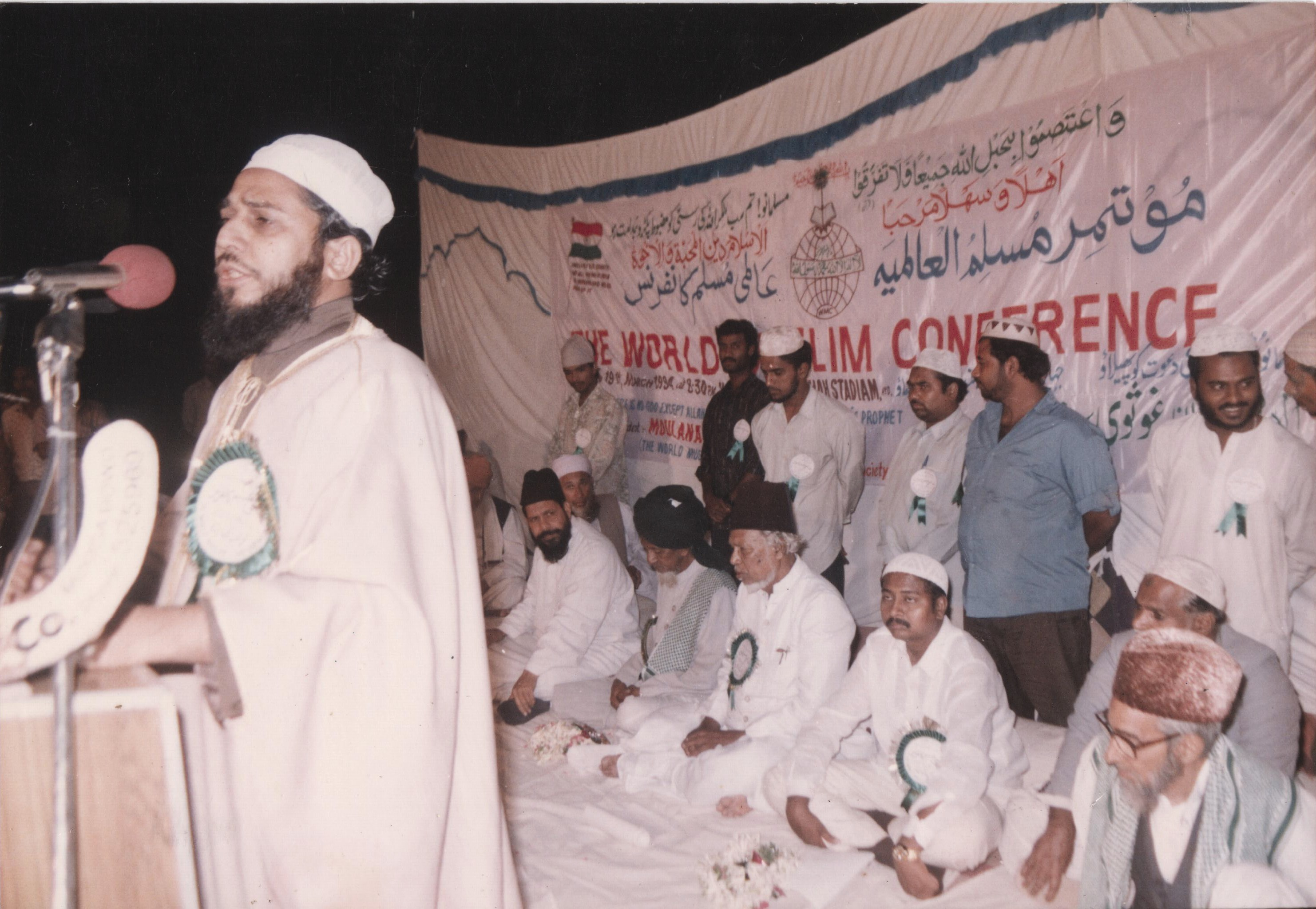 The World Muslim Conference organized by Moulana Ghousavi Shah(Secretary General: The Conference of World Religions)